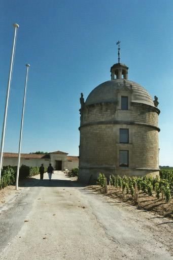 Château Latour in Pauillac